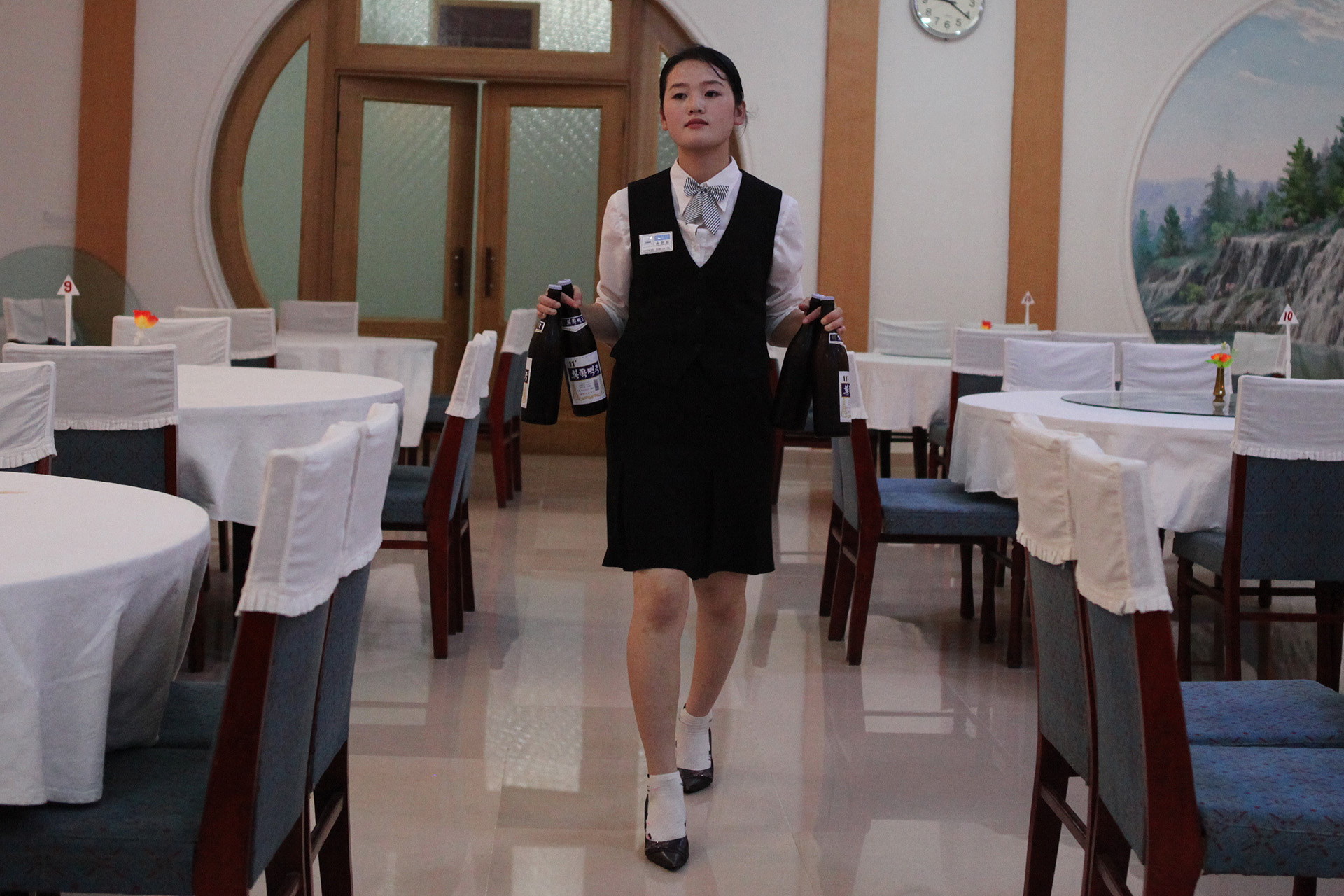 Catwalk performed by waitress in Samjiyon Pegaebong hotel.